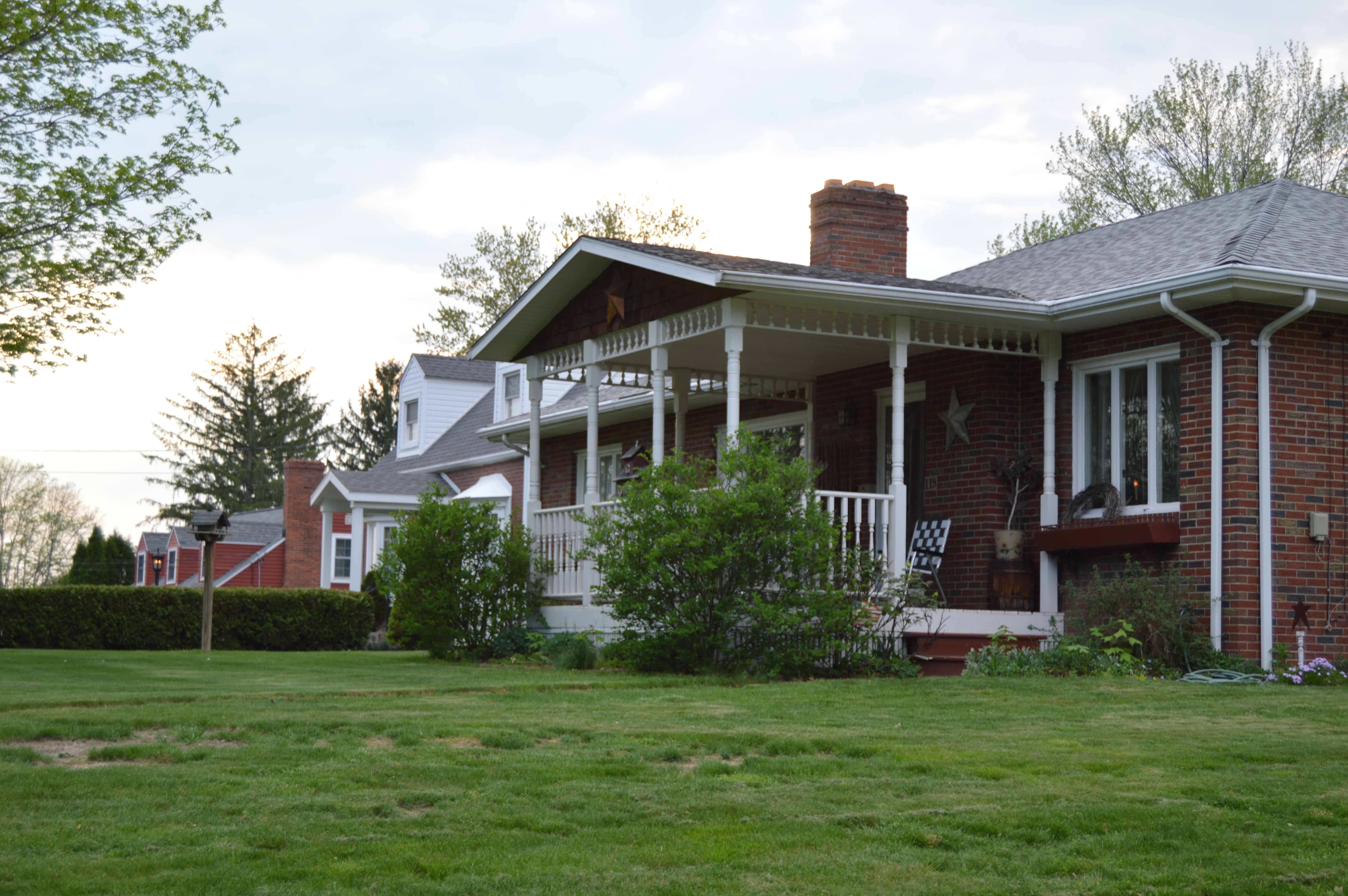 Houses on the northern side of Mayfield Drive, seen from Beechwood Boulevard, in the Shanor community of Center Township, Butler County, Pennsylvania, United States.